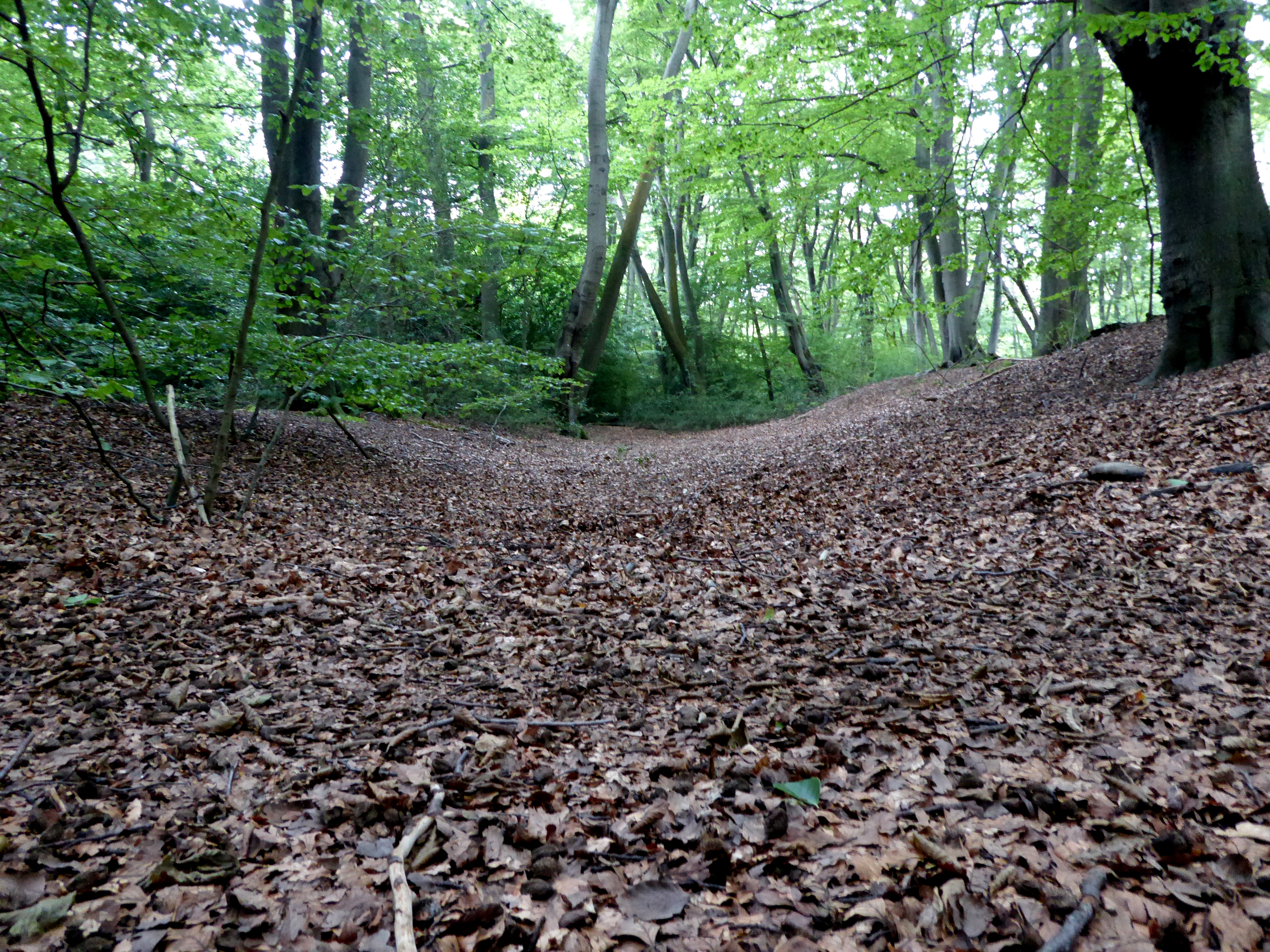 Exterior ditch on the north-eastern side of Loughton Camp in Epping Forest, Essex.